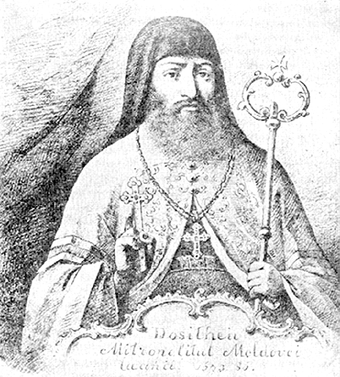 Dosoftei